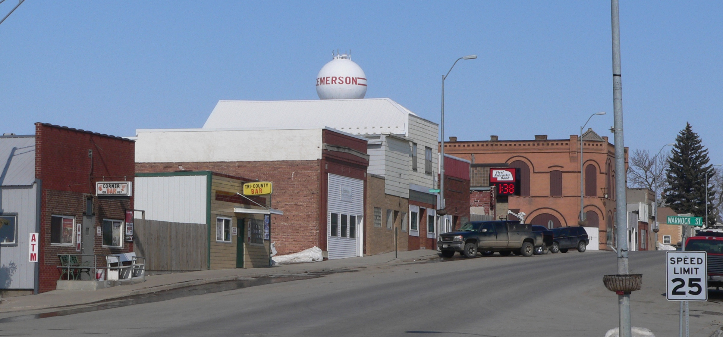 West side of Main Street (Nebraska Highway 9) in Emerson, Nebraska. The First Nebraska Bank building is on the southwest corner of First and Main, at the junction of the lines dividing Dixon, Dakota, and Thurston counties. The west side of Main (including the Tri-County Bar) is in Dixon County; the camera is in Thurston County; and Dakota County is on the east side of Main beginning a block north of the camera.